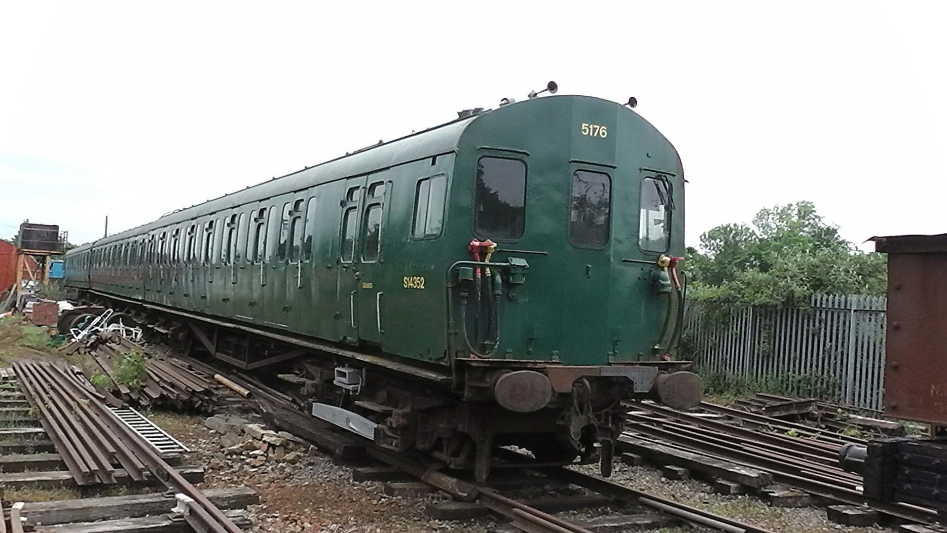 BR Class 415 4EPB unit 5176 at the Northamptonshire Ironstone Railway, Hunsbury Hill Country Park.